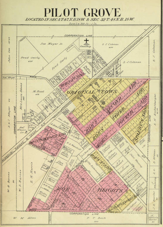 1915 map of Pilot Grove Township, Cooper County, Missouri from the Standard Atlas of Cooper County, Missouri, p. 12 (public domain)